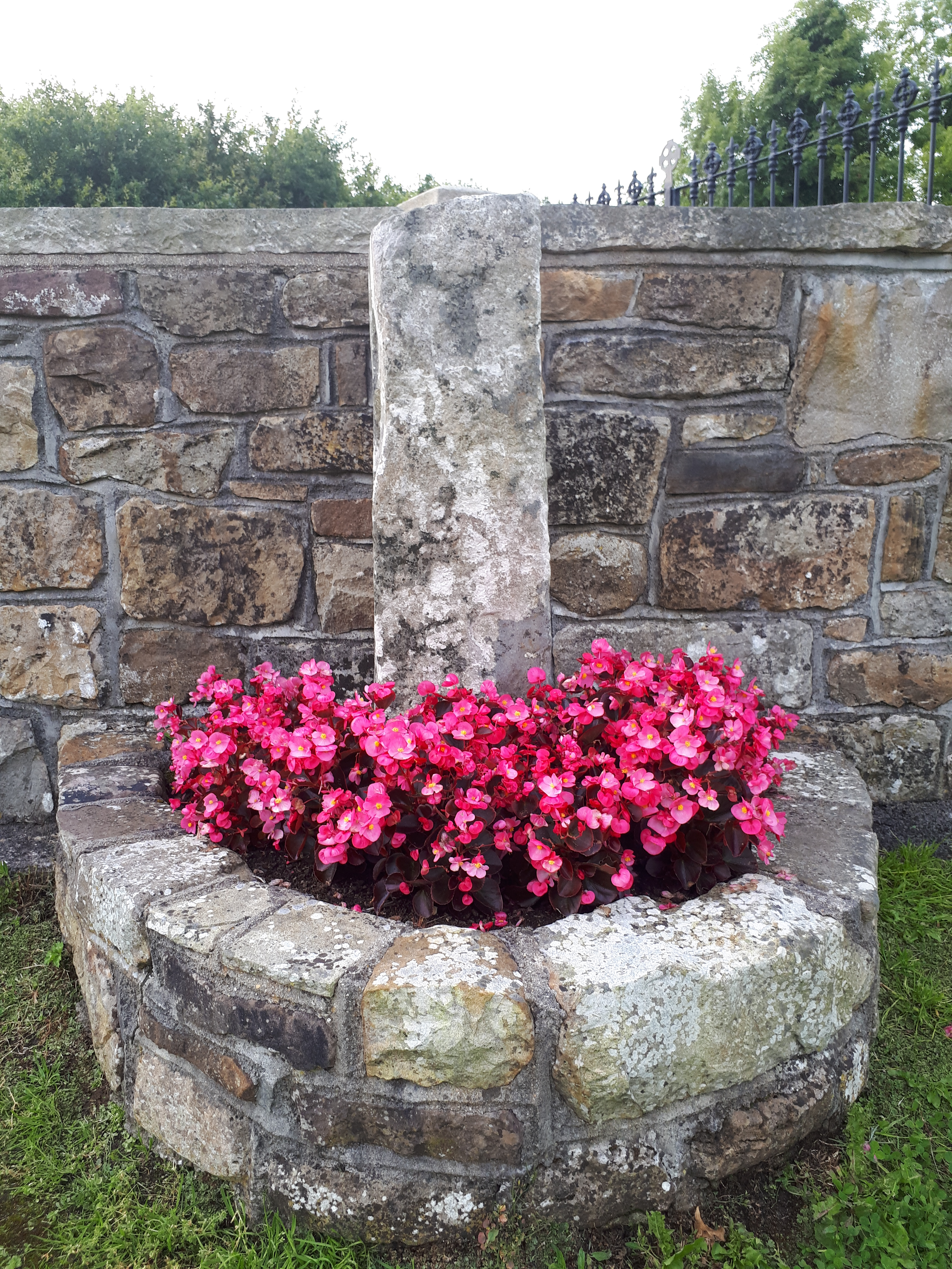 Presentation of the Cloonmorris Ogham Stone